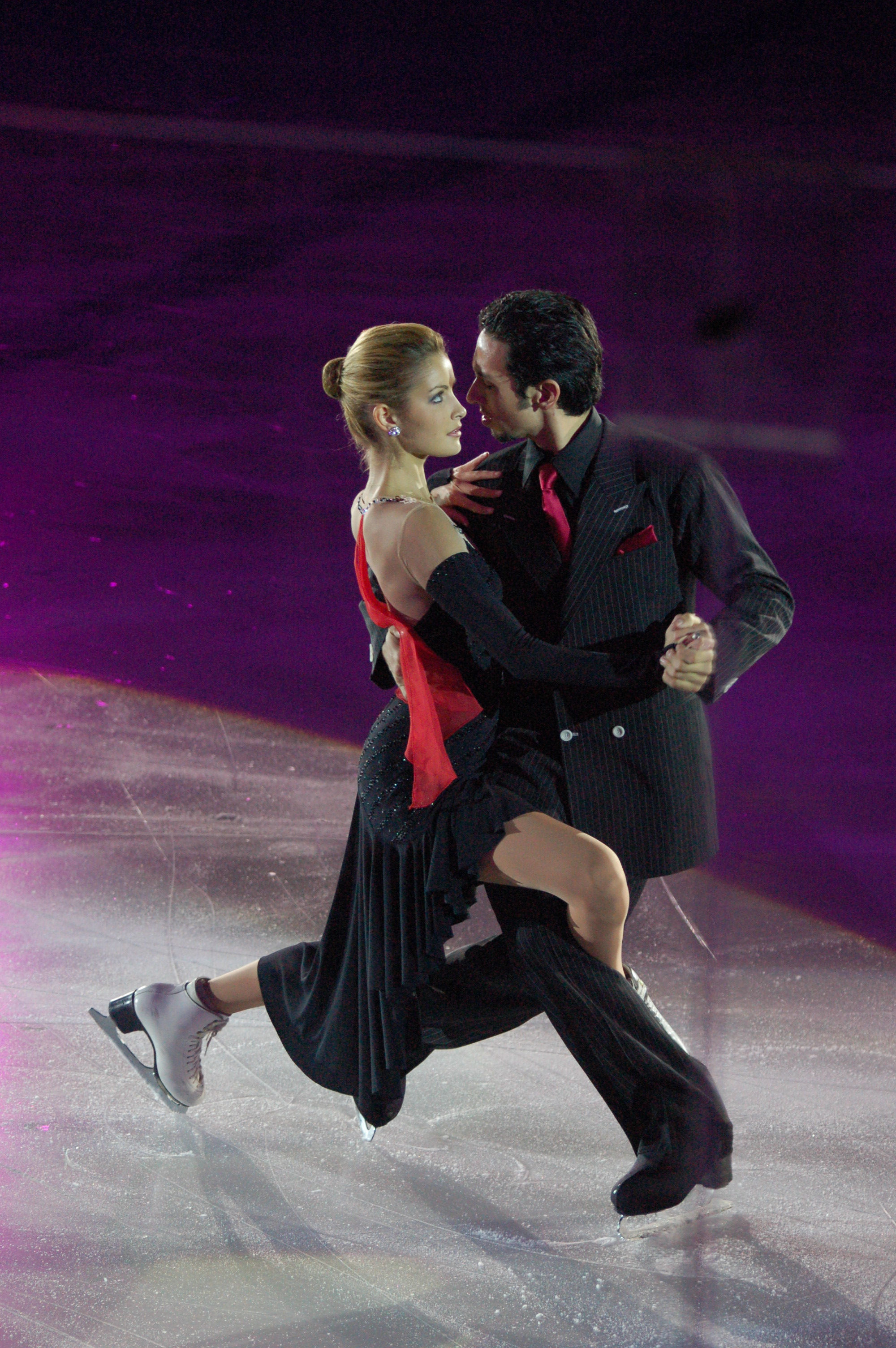 Belbin and Agosto